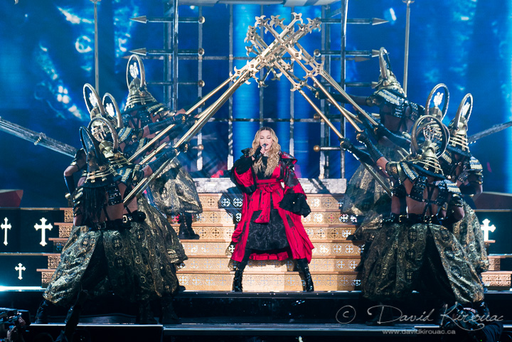 Rebel Heart Tour opening night